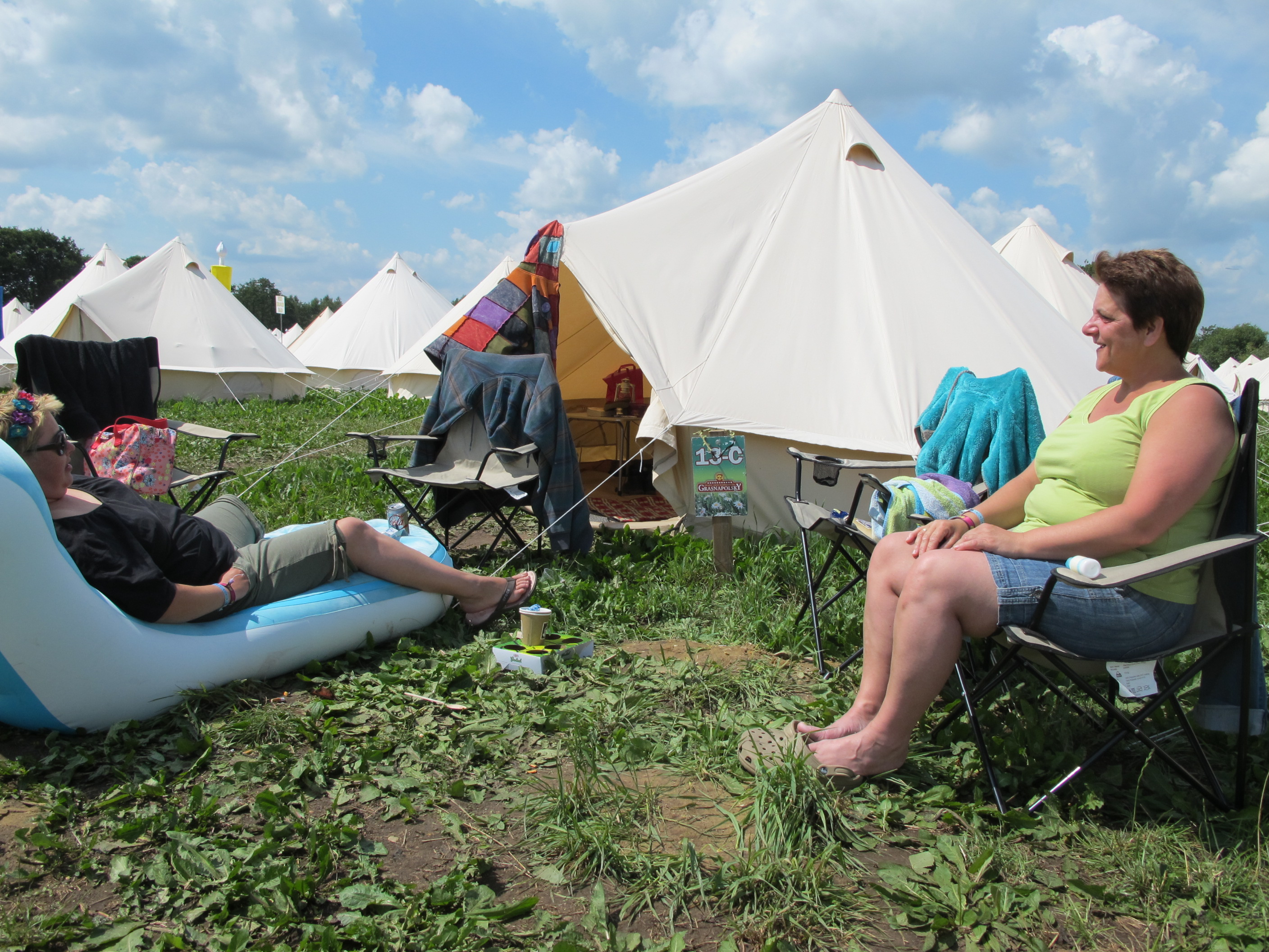 People at the Grasnapolsky glamping